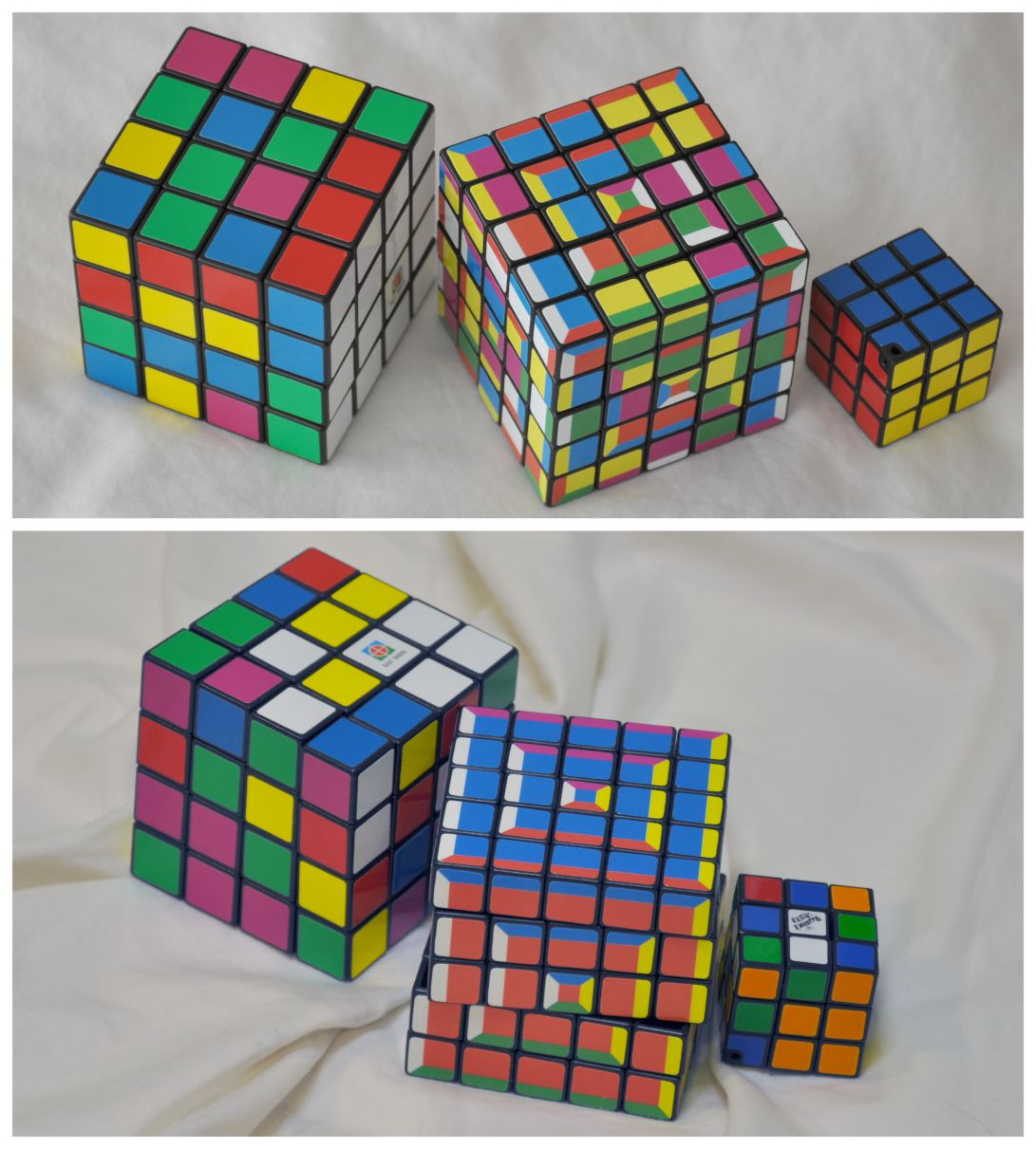 EastSheen 4x4x4 cube, EastSheen 5x5x5 cube with multi-color stickers, Rubiks 3x3x3 Keychain cube.